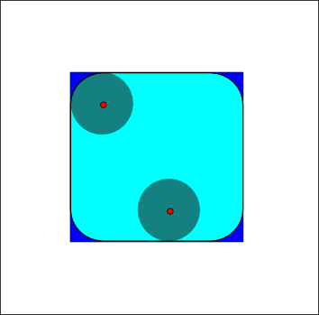 Author: Renato Keshet; Date: Jul 7th, 2008; Created in Inkscape.